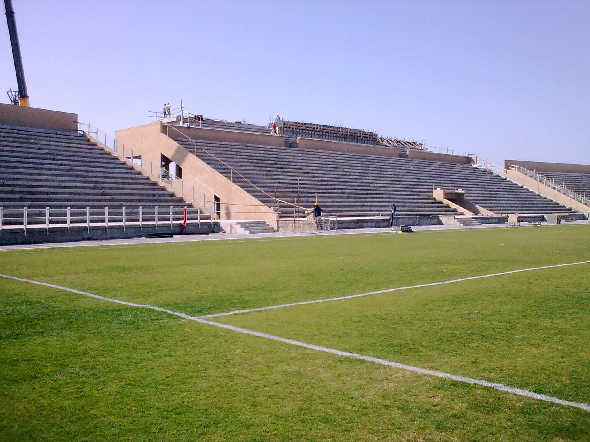 Acre Municipal Stadium